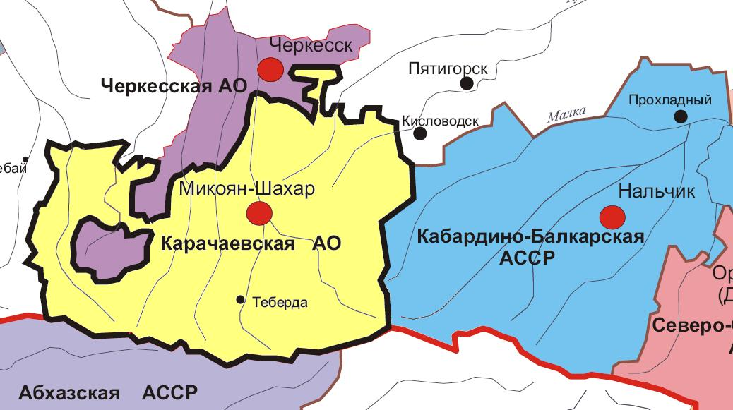 Map of Karachay